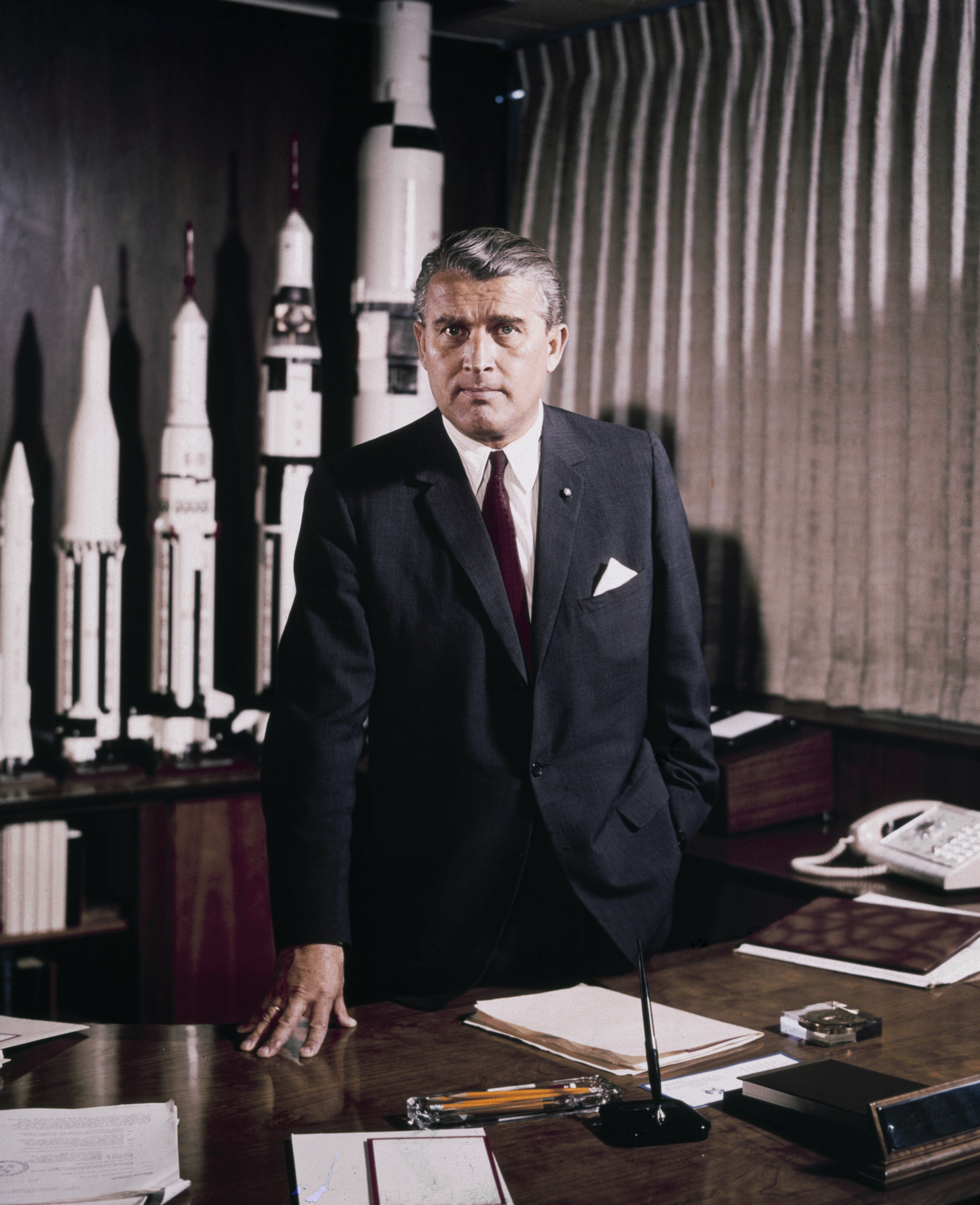 Dr. von Braun became Director of the NASA Marshall Space Flight Center on 1 May, 1964.